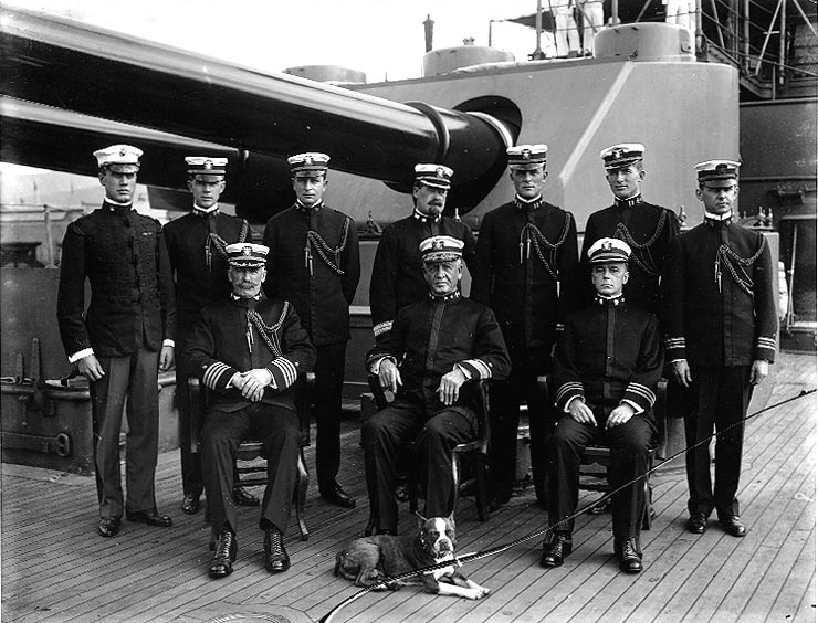 Admiral Uriel Sebree, USN, Commander in Chief, Pacific Fleet (seated, center) with members of his staff, on board USS Tennessee (Armored Cruiser # 10), circa early 1910. Those present are (seated, left to right): Captain William S. Benson, USN, Rear Admiral Sebree, Medical Inspector James D. Gatewood, USN (Standing, left to right): Major George C. Thorpe, USMC (probable identification), Lieutenant Commander Dudley W. Knox, USN, Lieutenant Commander Frank H. Clark, Jr., USN, Pay Inspector Ziba W. Reynolds, USN, Lieutenant Ralston S. Holmes, USN, Lieutenant Frank D. McMillan, USN (probable identification), Lieutenant Commander Leonard R. Sargeant, USN.